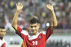 विमल घर्ती मगर